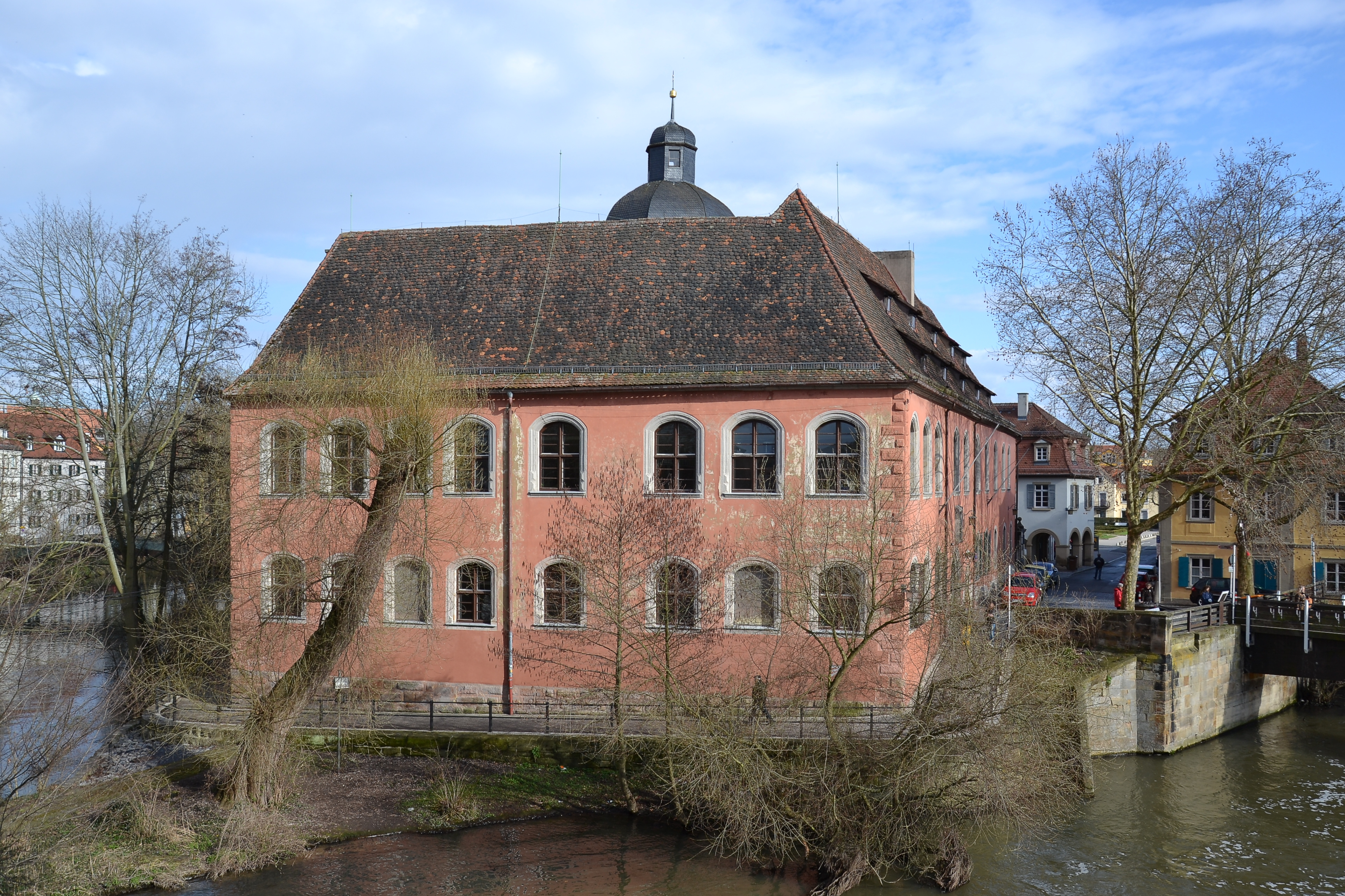 Bamberg - Castle Geyerswörth